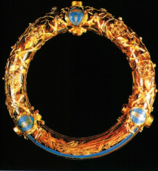 Crown of Thorns in the circular reliquary in crystal of 1896. Notre-Dame de Paris cathedral.